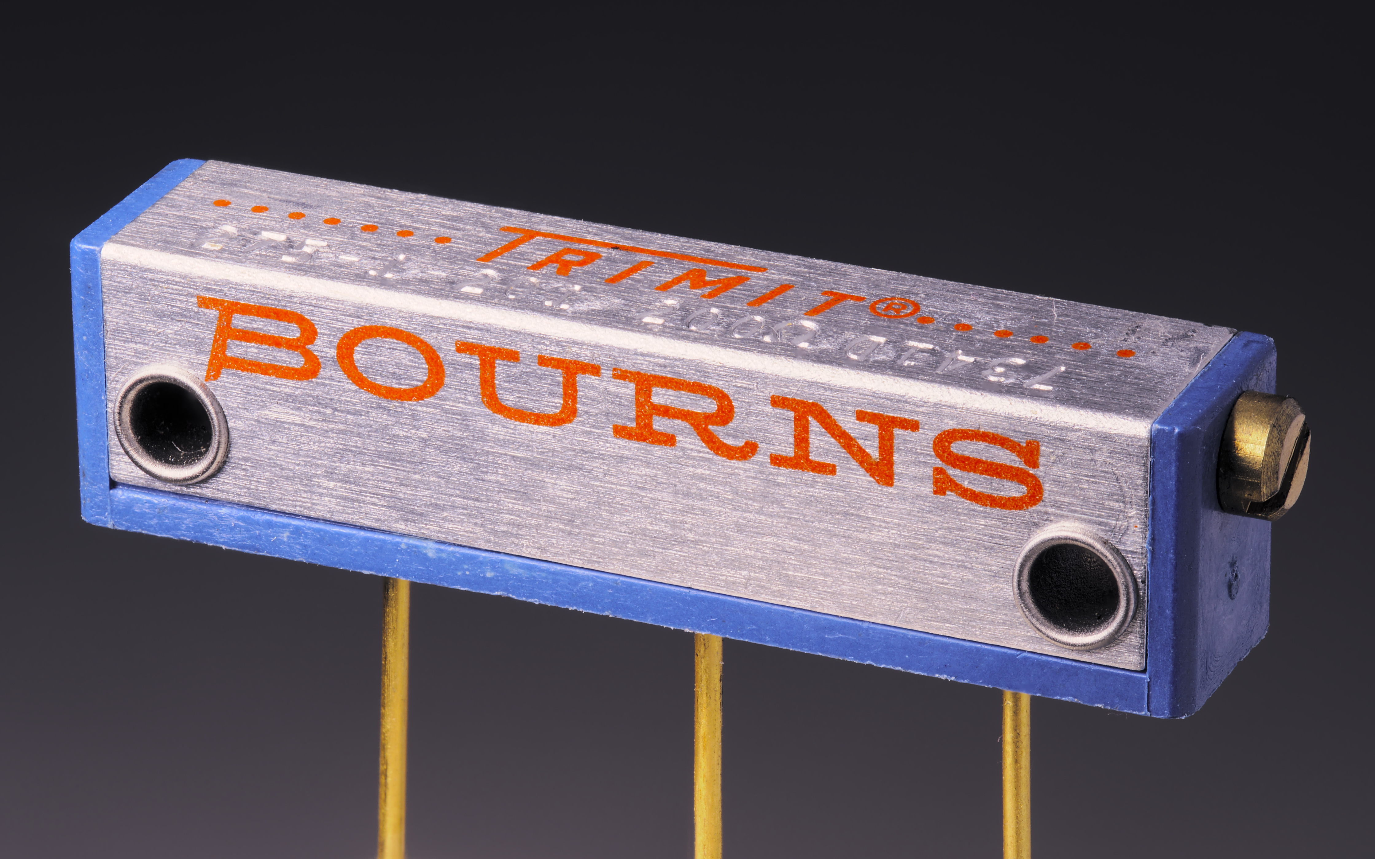 Bourns TRIMIT® trimming potentiometer. Case is 1.25 inches (32 mm) in length.